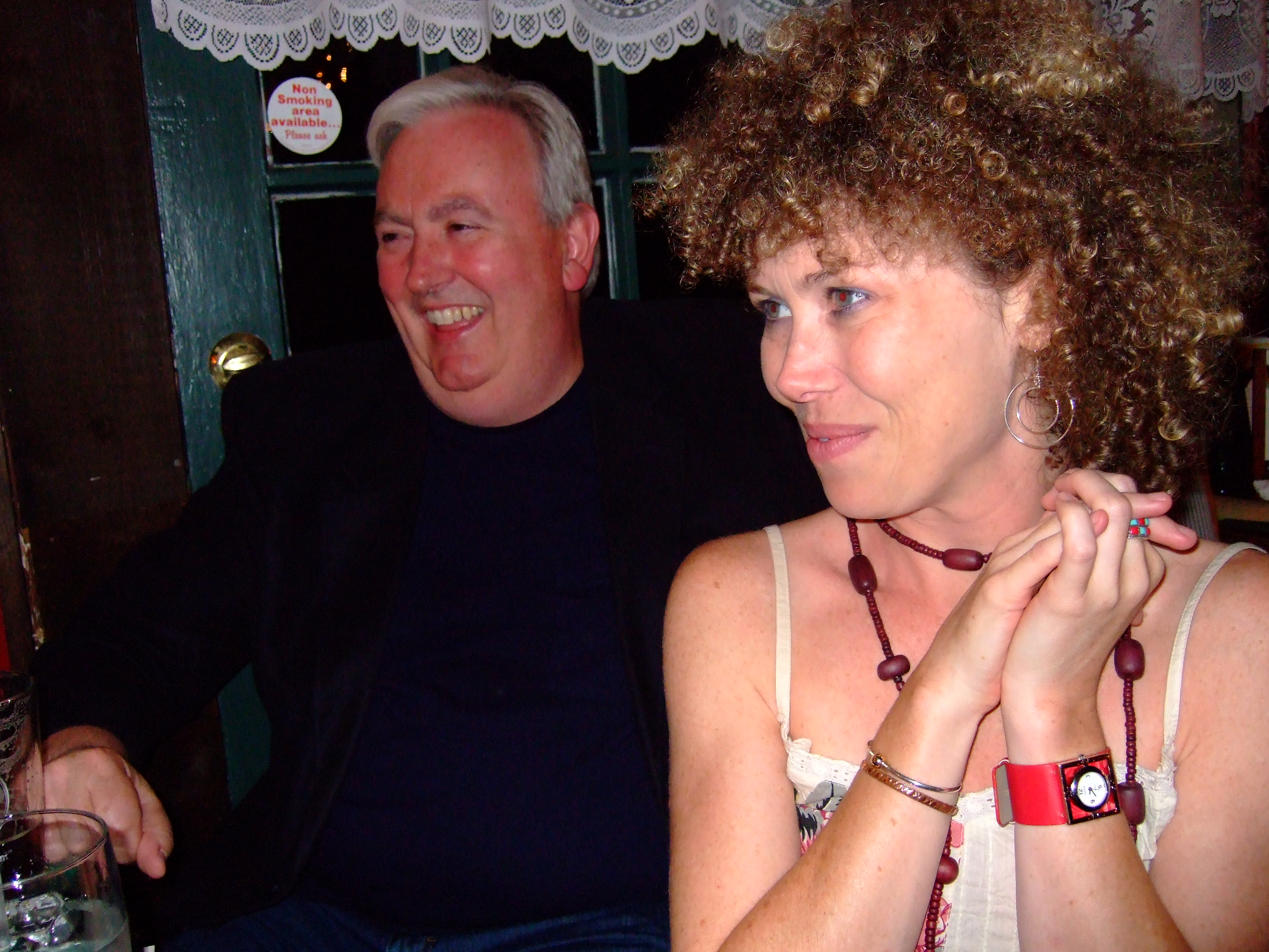 Irish folk musicians Robbie O'Connell and Aoife Clancy at the Cape Cod Celtic Festival, 2007.